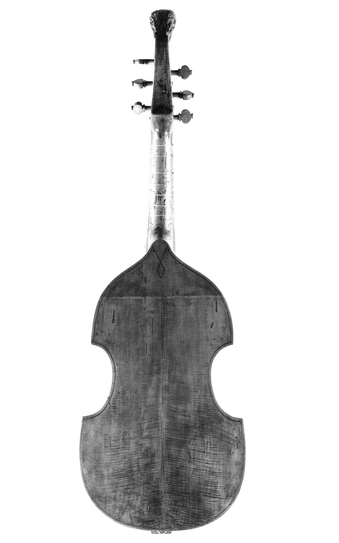 Italian; Lyra Viol; Chordophone-Lute-bowed-fretted